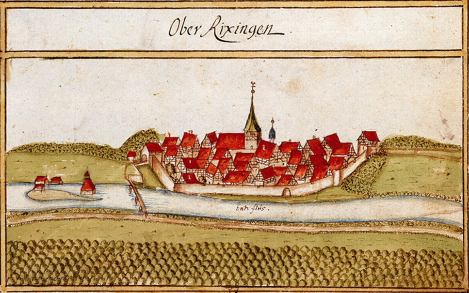 View of Oberriexingen from the forest register books created by Andreas Kieser